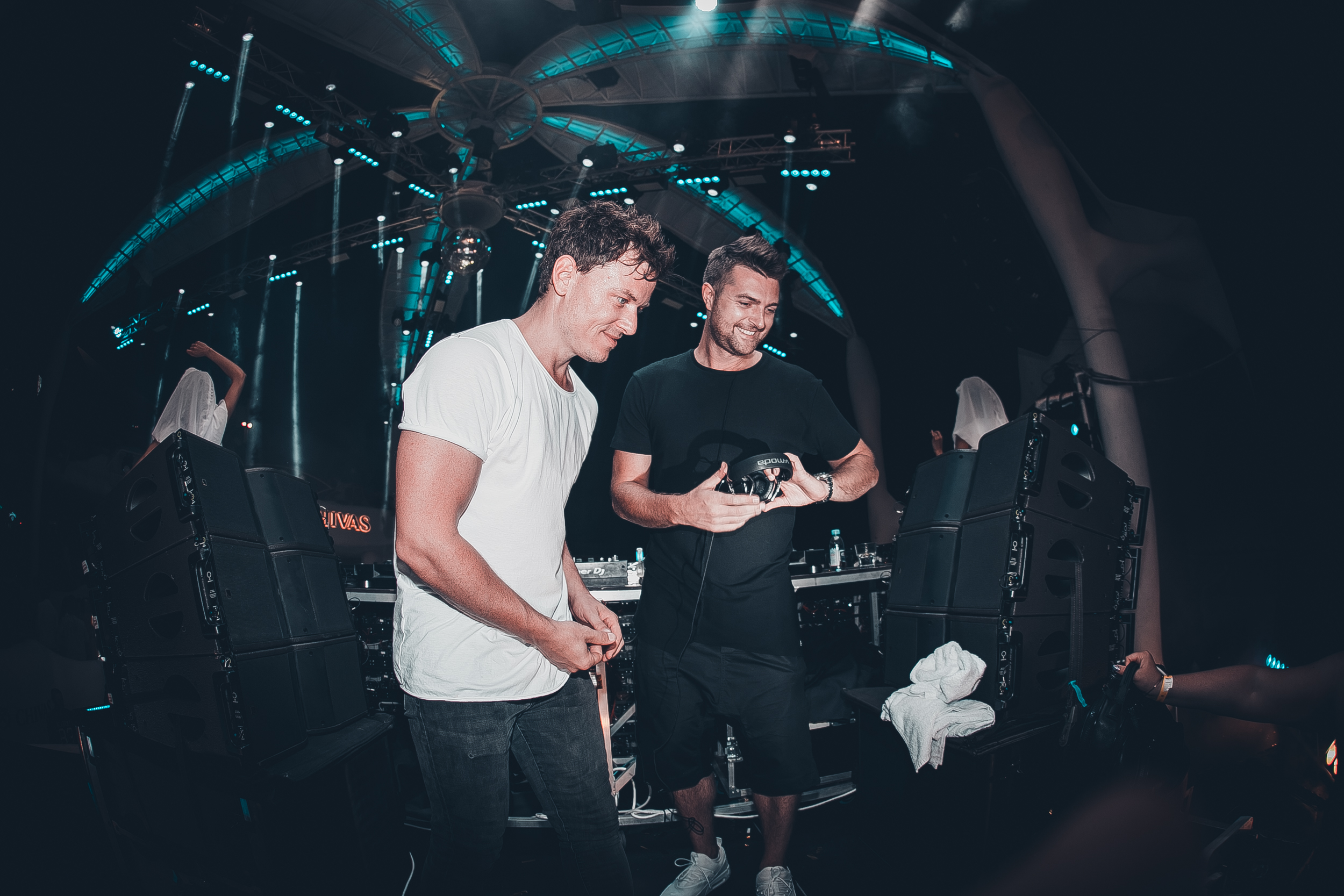 Dj Fenix and Dj Fedde Le Grand in 2018